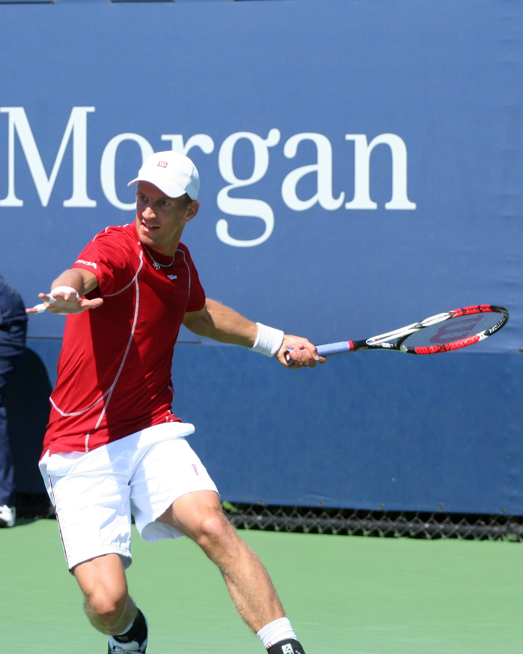 U.S. Open Tuesday, Sept. 1, 2009